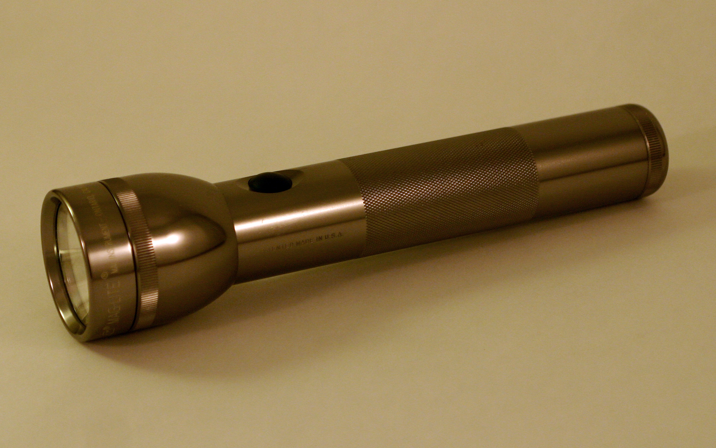 Maglite flashlight